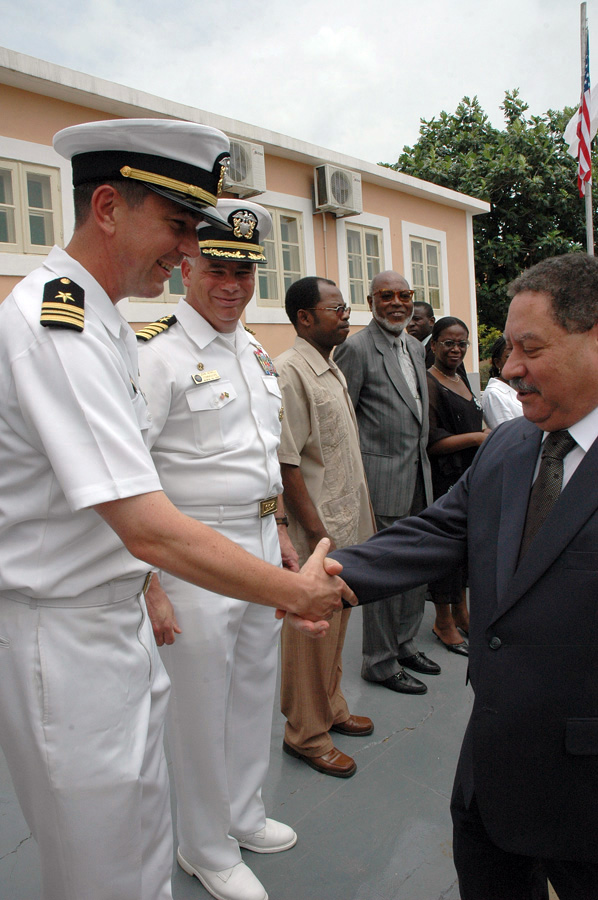 President of Sao Tome and Principe Fradique de Menezes shakes hands with U.S. Navy Lt. Cmdr. Drew Ehlers, the executive officer for USS Kauffman (FFG 59), as Navy Capt. John Nowell, commander of Destroyer Squadron Six Zero, looks on during the dedication ceremony of the Sao Tome and Principe central hospital March 9, 2007. The ceremony marks the completion of a $500,000 hospital renovation, which was paid for with humanitarian assistance funds from U.S. European Command.